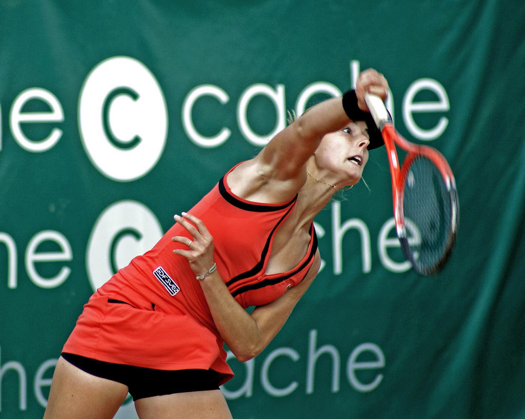 Serving